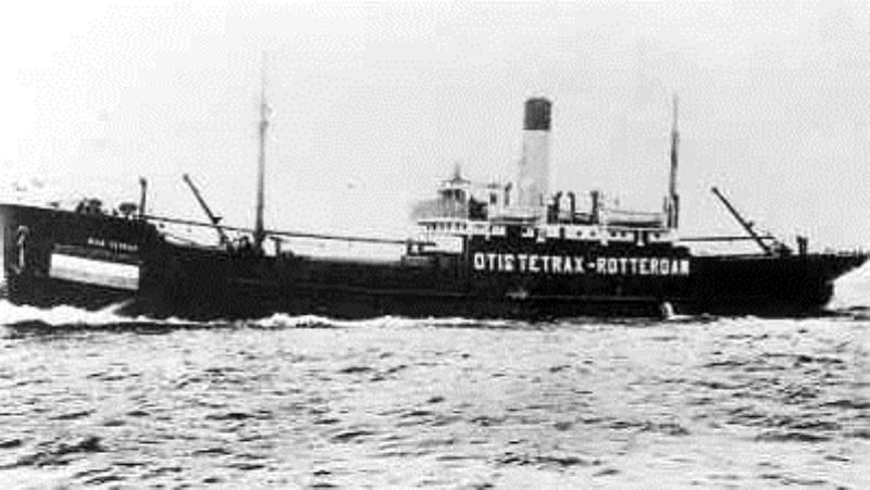 SS. Otis Tetrax (1916-1918)